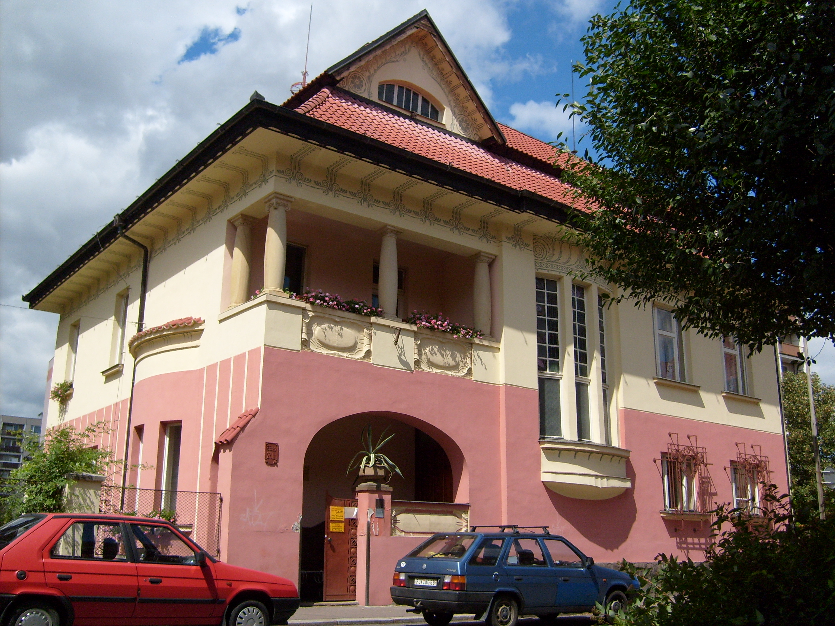 Brno